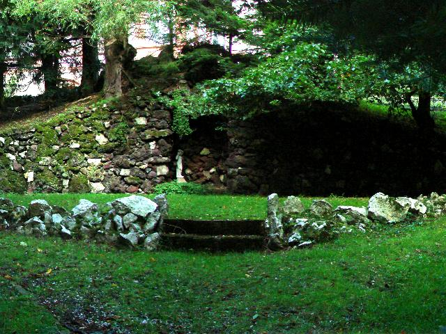 grotto park Villa Haas in Sinn